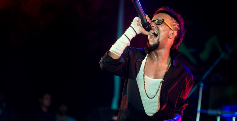 This picture was taken at Underground Authority's performance in Nazrul Mancha (Kolkata)